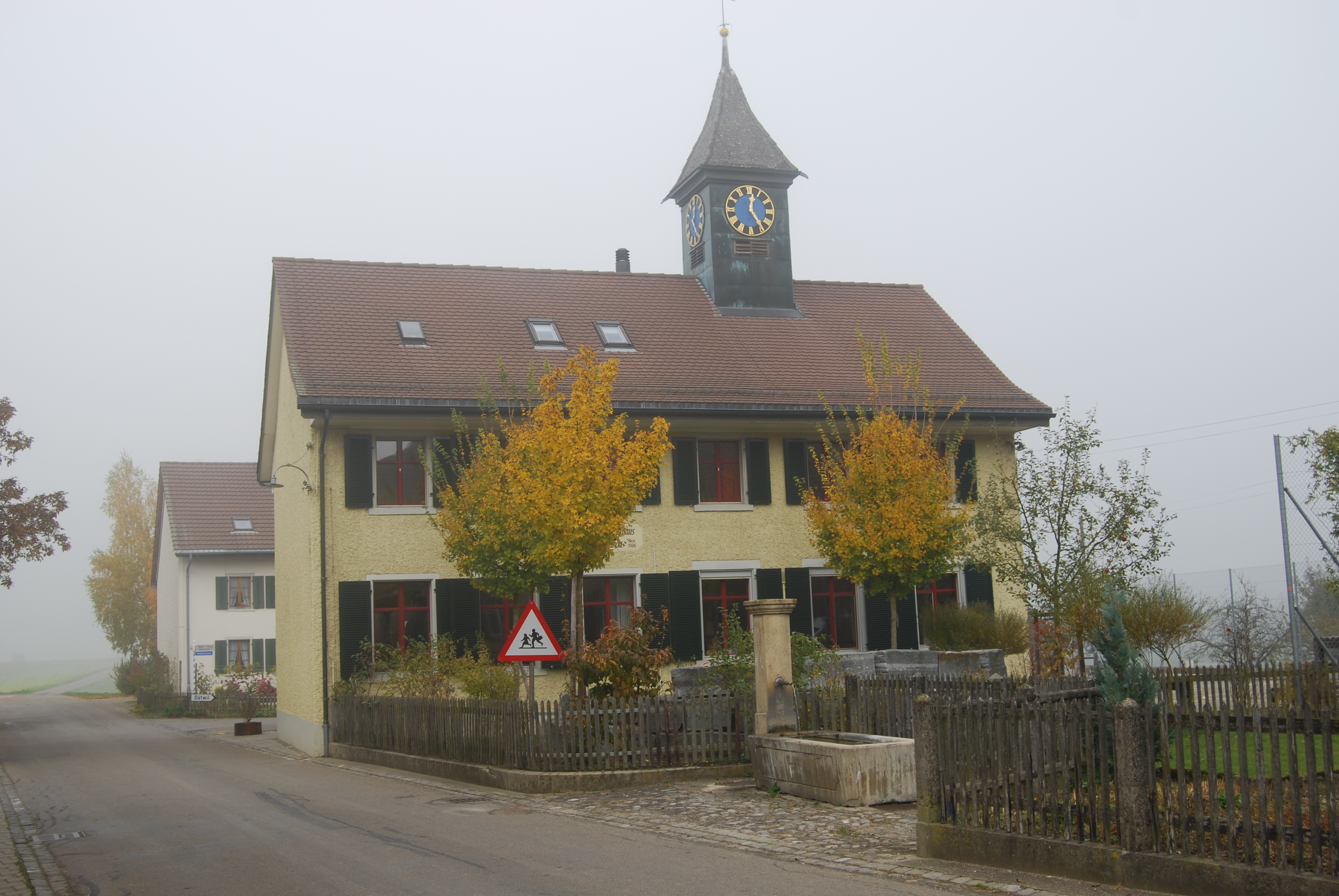 Primary school of Adlikon, canton of Zürich, SwitzerlandEsperanto: Baza lerjnejo de Adlikon, Kantono Zuriko, Svislando